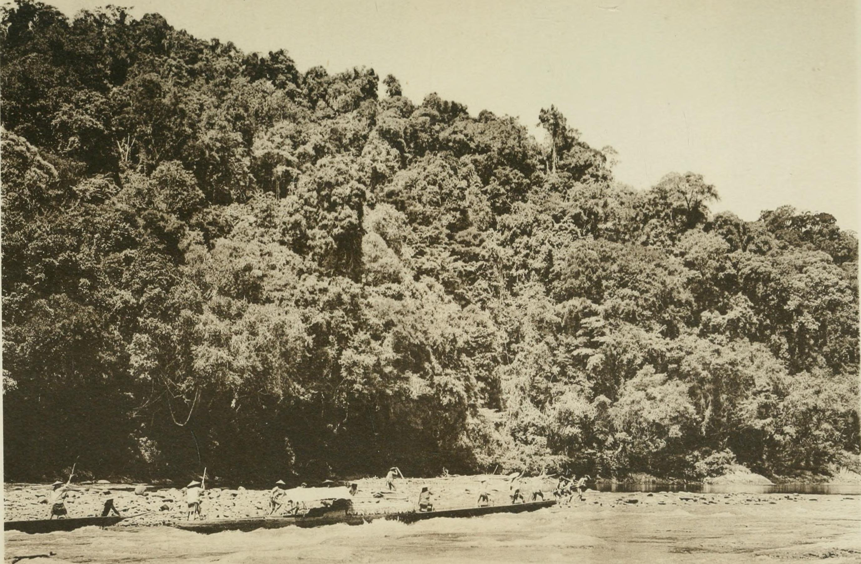 "POLING UP THE PALAGUS FALLS, REJANG RIVER." (original caption). Plate 75 (face pg. 136) from C.Hose / W.McDougall (1912): The Pagan Tribes of Borneo. Title: The pagan tribes of Borneo; a description of their physical, moral and intellectual condition, with some discussion of their ethnic relations Year: 1912 (1910s) Authors: Hose, Charles, 1863-1929 McDougall, William, 1871-1938 Haddon, Alfred C. (Alfred Cort), 1855-1940 Subjects: Ethnology Anthropometry Publisher: London : Macmillan and co., limited Text Appearing Before Image: ut seven feet apart ;where each terminates a stout pole is driven firmlyinto the bed of the river. These two poles are con-nected by a stout cross-piece lashed to them a littleabove the level of the water. The cross-piece formsa fulcrum for a pair of long poles joined togetherwith cross-pieces, in such a way that their down-stream ends almost meet, while up stream theydiverge widely. They rest upon the fulcrum at apoint about one-third of their length from their down-stream ends. Between the widely divergent partsup stream from the fulcrum a net is loosely stretched.The net lies submerged until fish coming downstream are directed on to the net by the convergentfences. The fisherman stands on a rude platformgrasping the handle-end, and, feeling the contacts ofthe fishes with the net, throws his weight upon thehandle, so bringing the net quickly above the surface.Beside him he has a large cage of bamboo standingin the water, into which the fish are allowed to slidefrom the elevated net. Text Appearing After Image: rt:^- f I